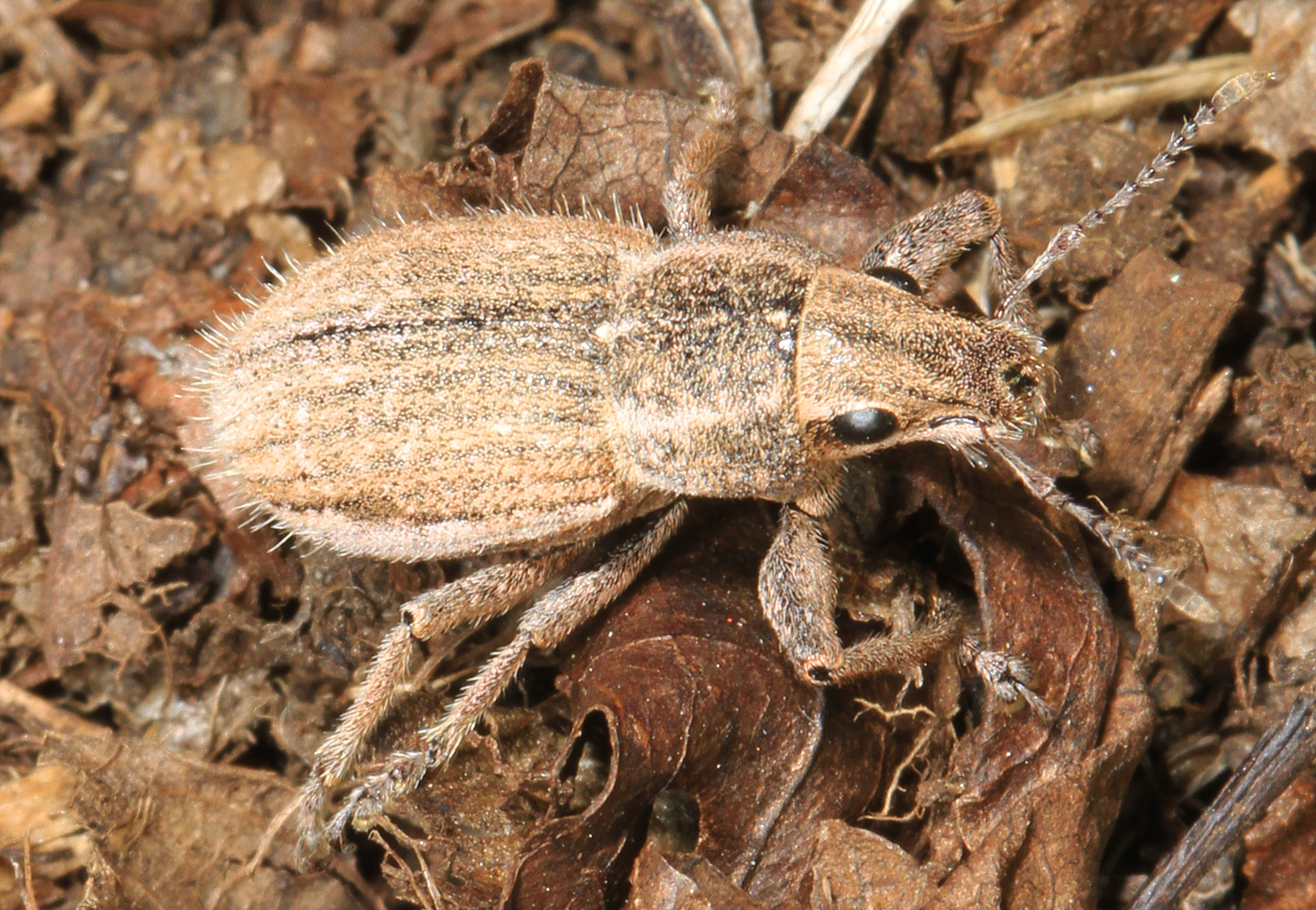 White-fringed Weevil - Naupactus leucoloma, Meadowood Farm SRMA, Mason Neck, Virginia